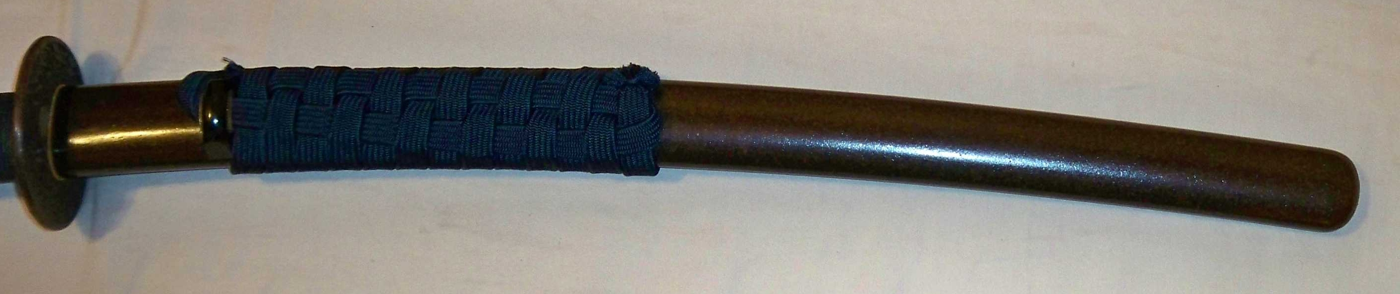 Antique Japanese wakizashi saya.